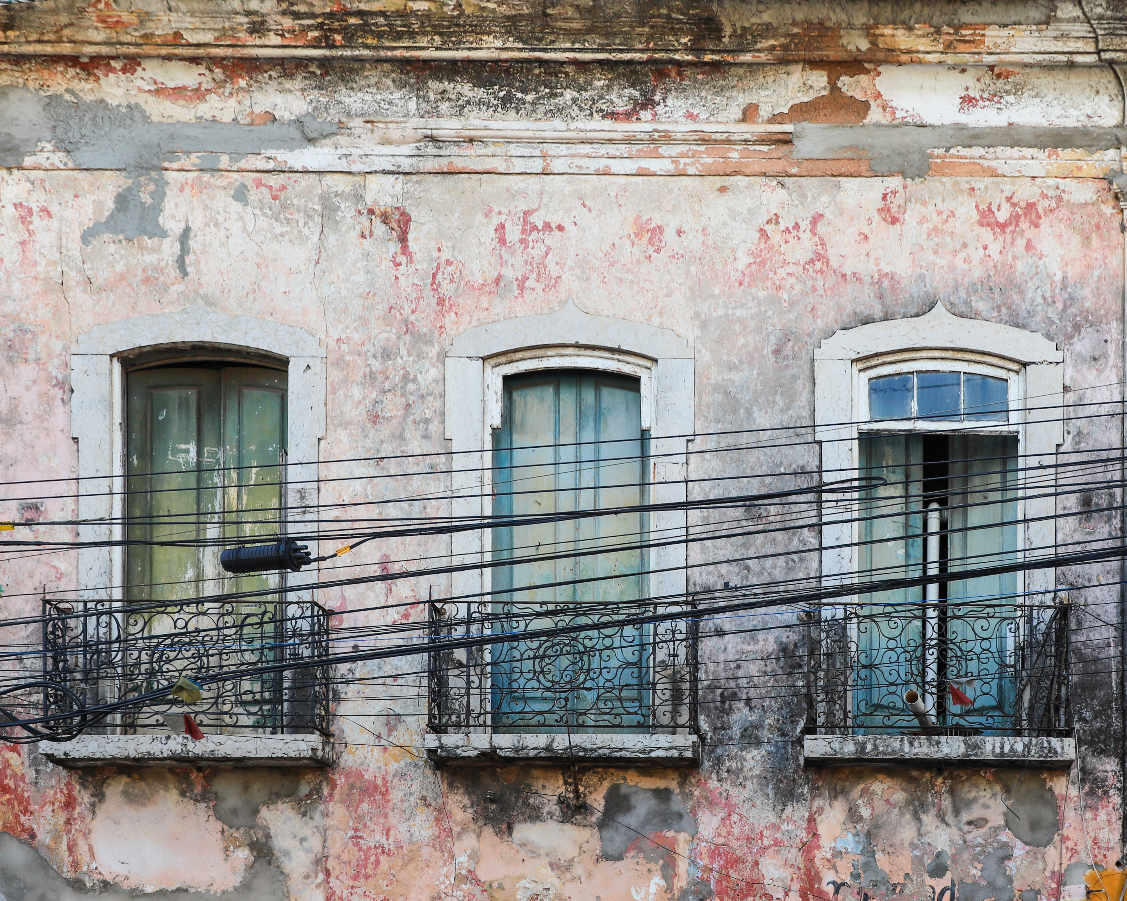 Solar Bandeira, Salvador, Bahia, Brazil.